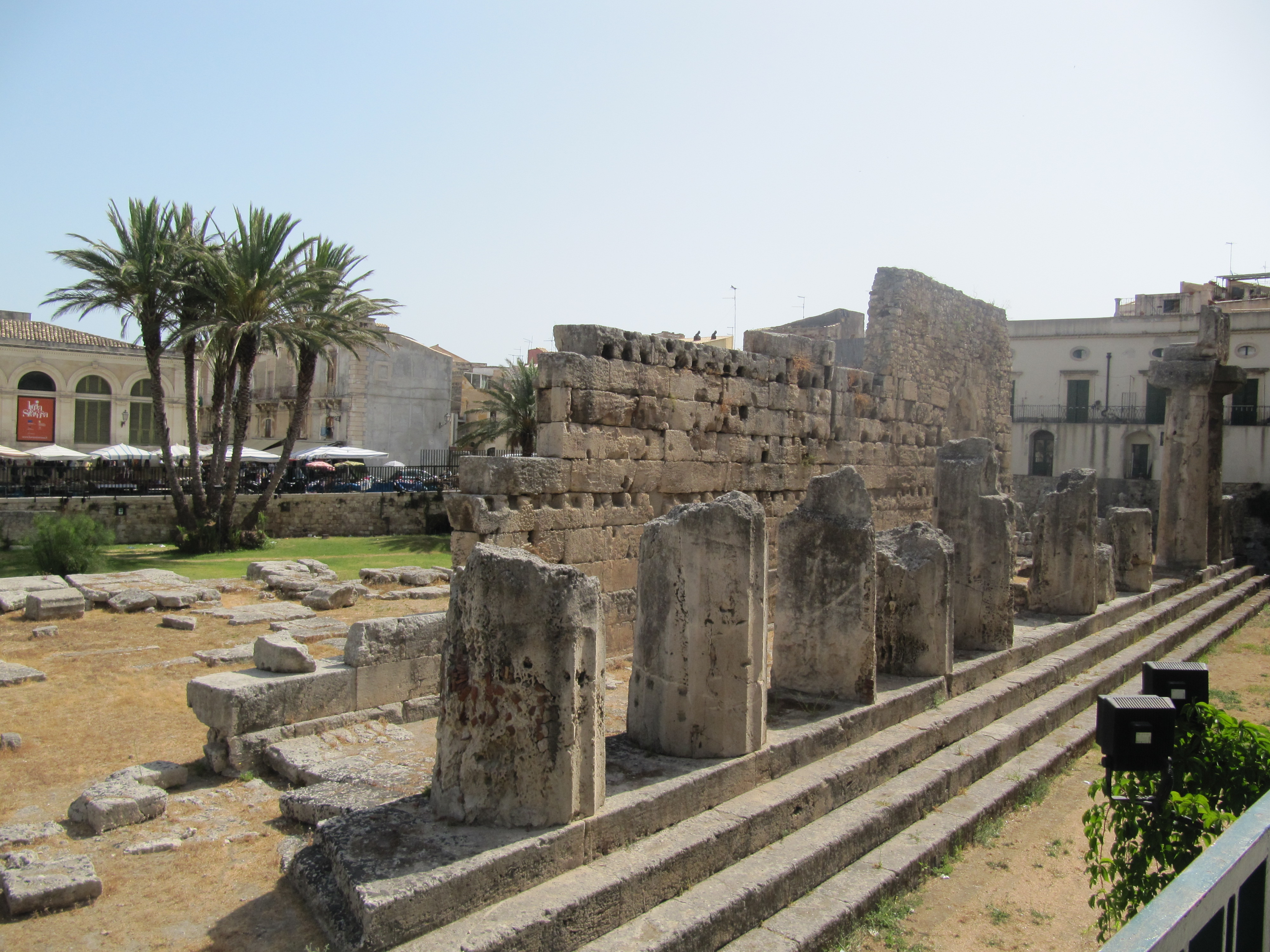 Syracuse, Sicily, Italy. Temple of Apollo.